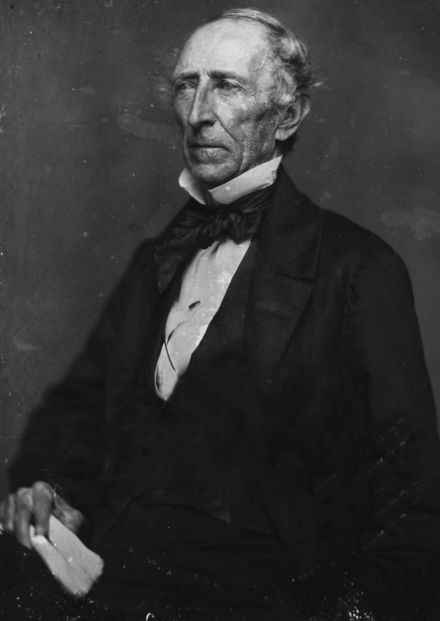 Restored daguerreotype of John Tyler, tenth president of the United States.